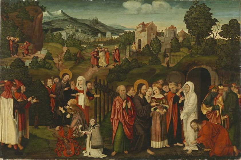 the painting shows the story of the raising of Lazarus (John 11:1–45) in several scenes